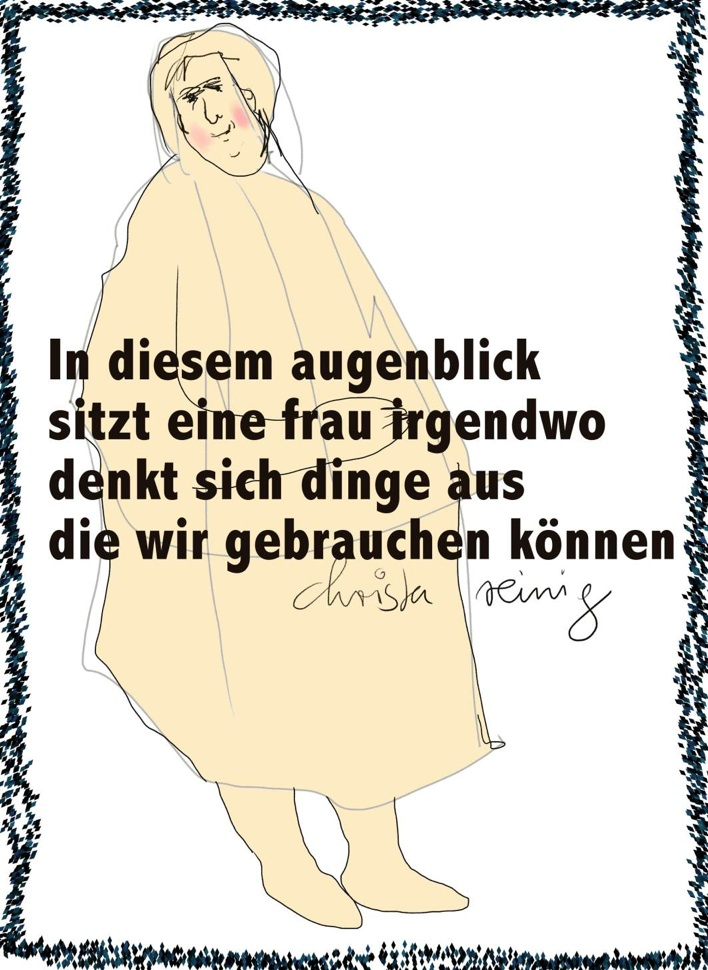 a drawing which includes a poem by Christa Reinig